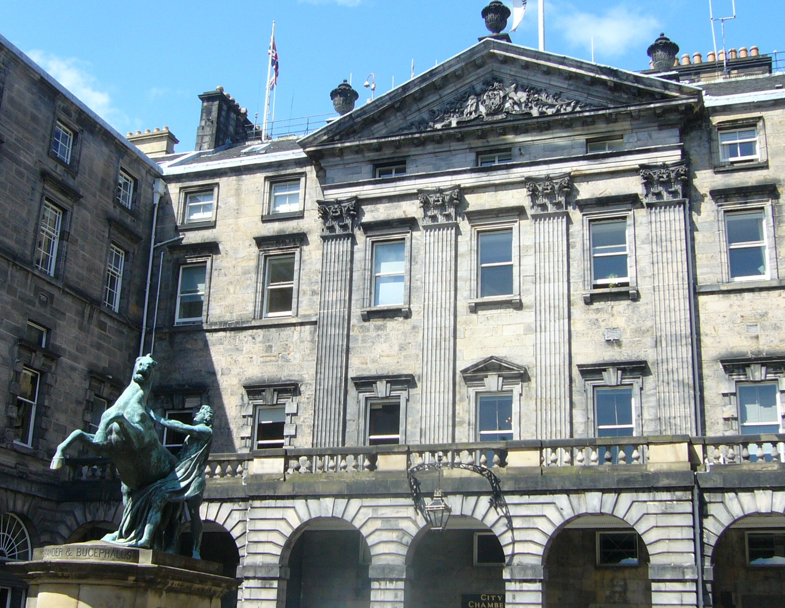 The Royal Exchange, which later became the City Chambers, was built in 1753-4 to designs by the brothers John and Robert Adam. The subsoil removed to lay the foundations was used to form the Castle Esplanade.